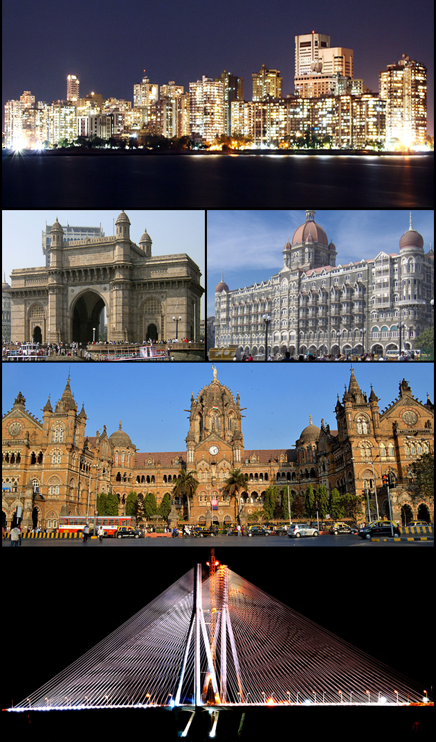 Mumbai, the largest city in India. From top to bottom and from left to right: 1) Cuffe Parade viewed from Nariman Point; 2) Gateway of India; 3) Taj Mahal Palace Hotel; 4) Chhatrapati Shivaji Terminus (Victoria Terminus); 5) Bandra–Worli Sea Link